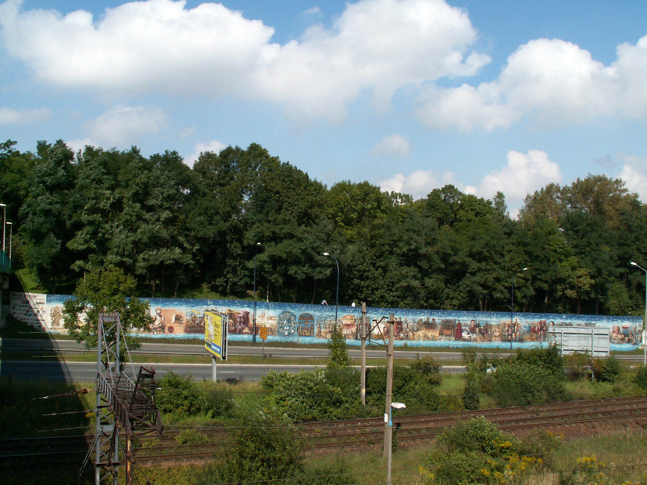 Mural Silva Rerum,Powstancow Slaskich street,Podgorze,Krakow,Poland